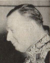 Ambassador Jean van den Bosch presents his letters of credence to Kasa-Vubu